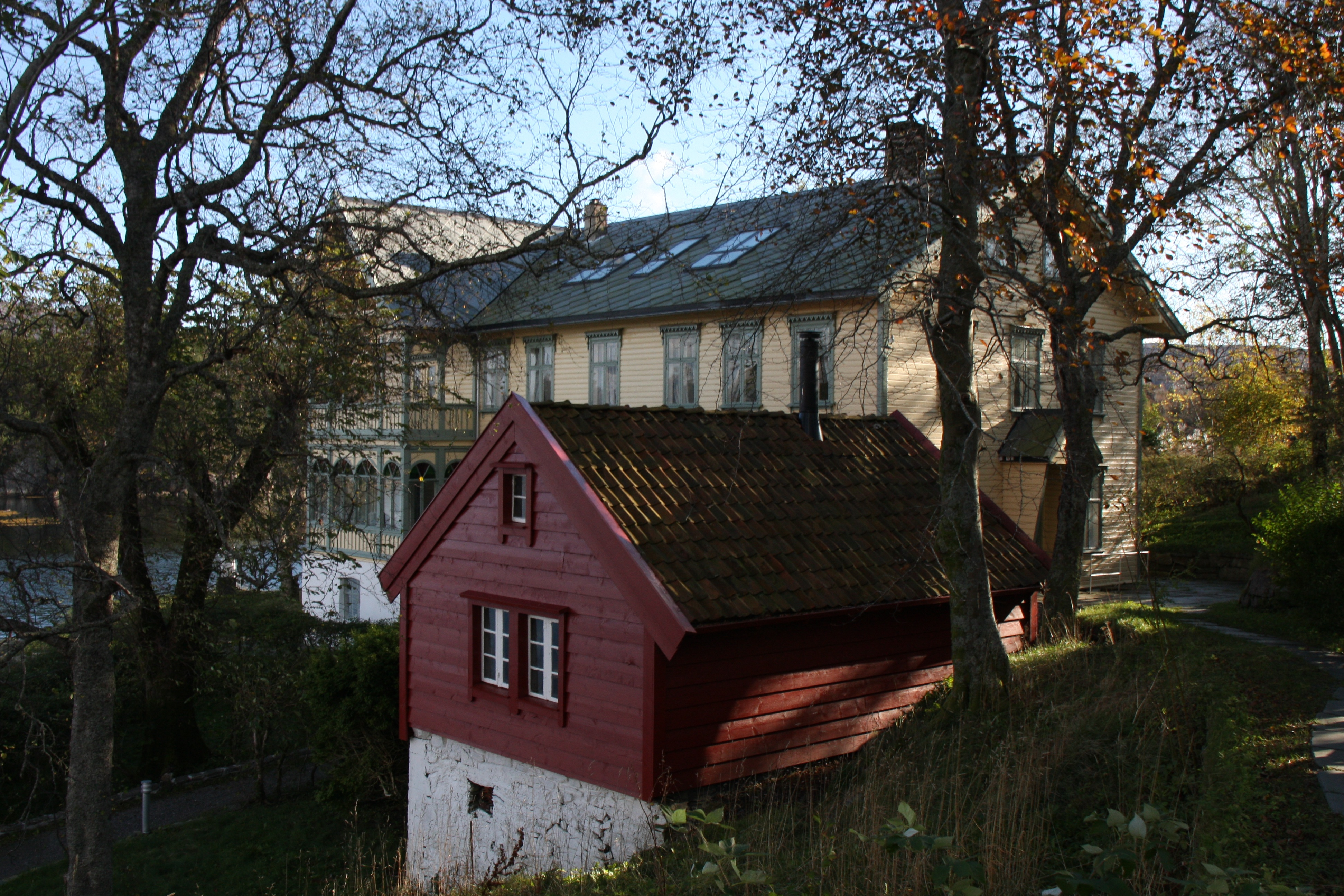 Gulen municipality, Norway.